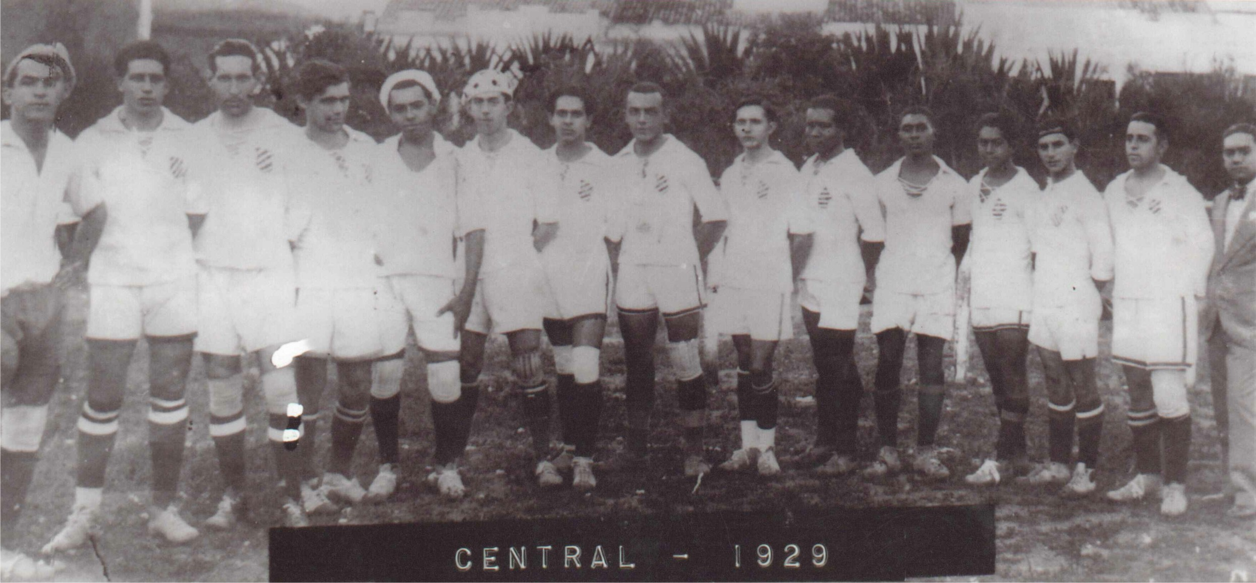 Central Sport Club. 1929